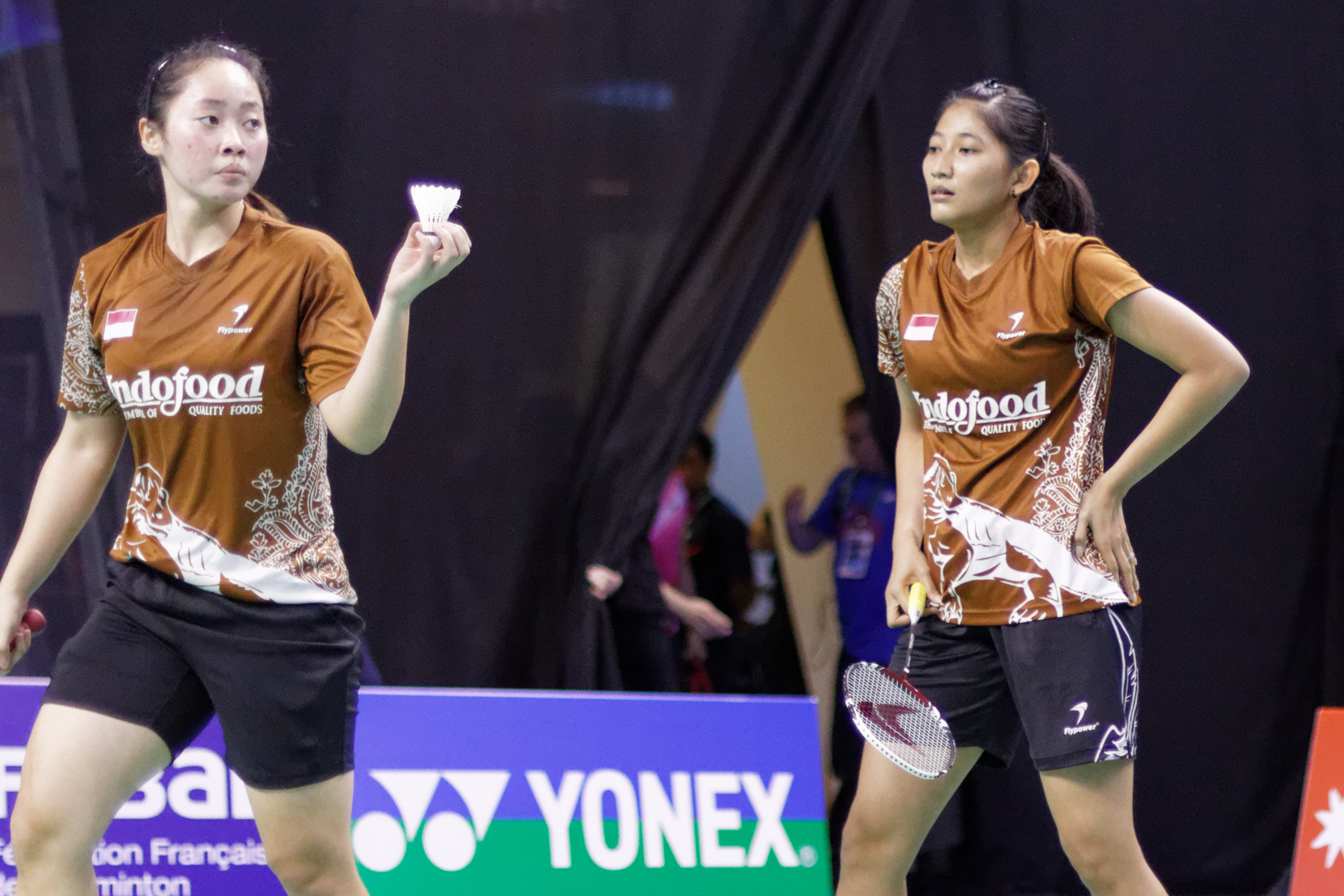 2013 French open. Women's doubles eightfinal. Gebby Ristiyani Imawan and Tiara Rosalia Nuraidah vs Misaki Matsutomo and Ayaka Takahashi.